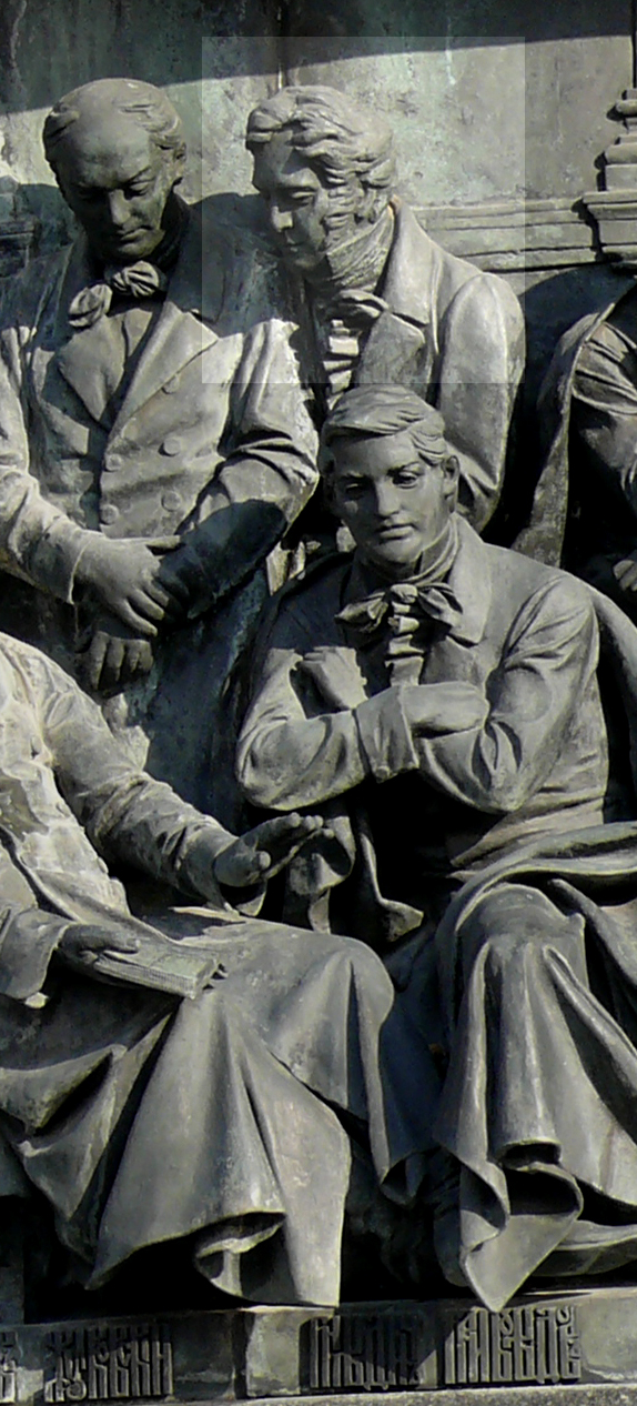 Nikolay Gnedich on the Monument «Millennium of Russia» in Veliky Novgorod